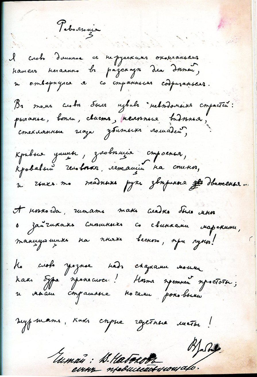 Nabokov's Autograph in Chukokkola Almanac with explanation of Korney Chukovski "To read: V. Nabakov, son of the first one